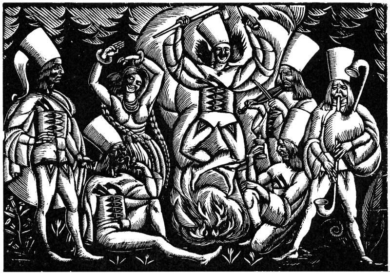 Dancing over fire, wood engraving, Muzeum Żup Krakowskich w Wieliczce